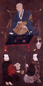 Uesugi Kenshin with Two Retainers, Niigata Prefectural Museum of Modern Art, Nagaoka, Niigata, Japan